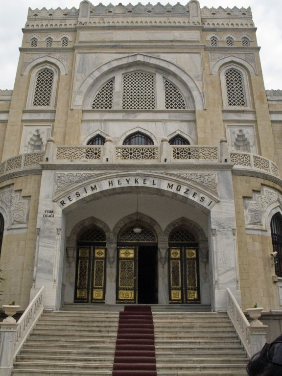 State Art and Sculpture Museum, Ankara